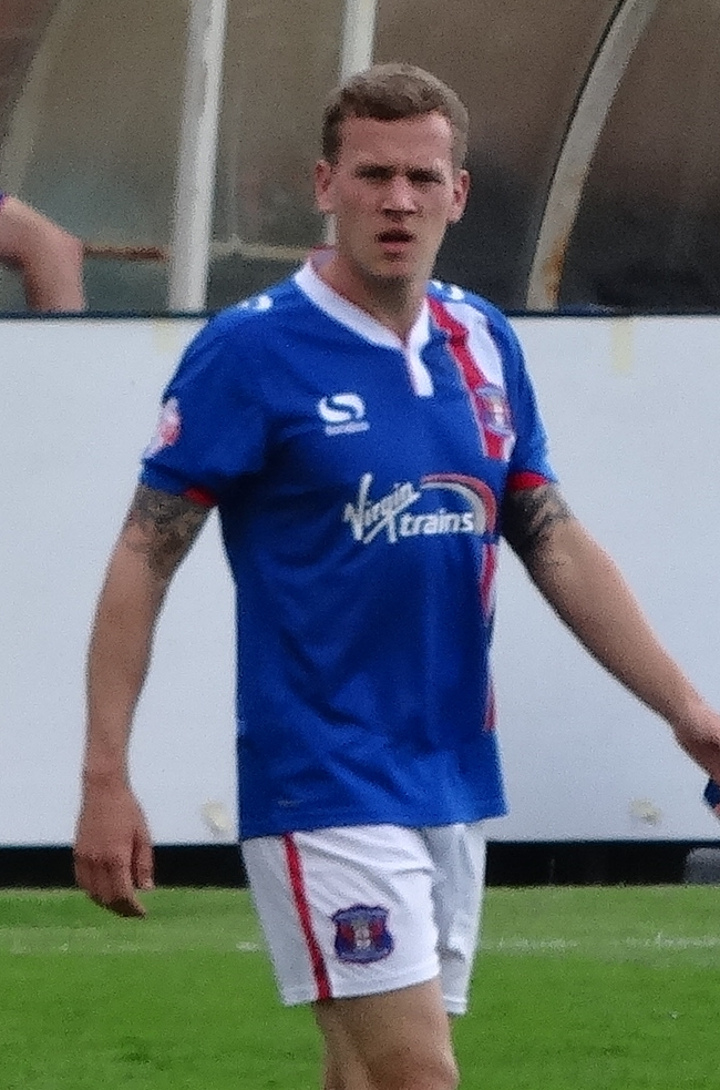 Tom Miller playing for Carlisle United against York City at Bootham Crescent, York on 19 September 2015